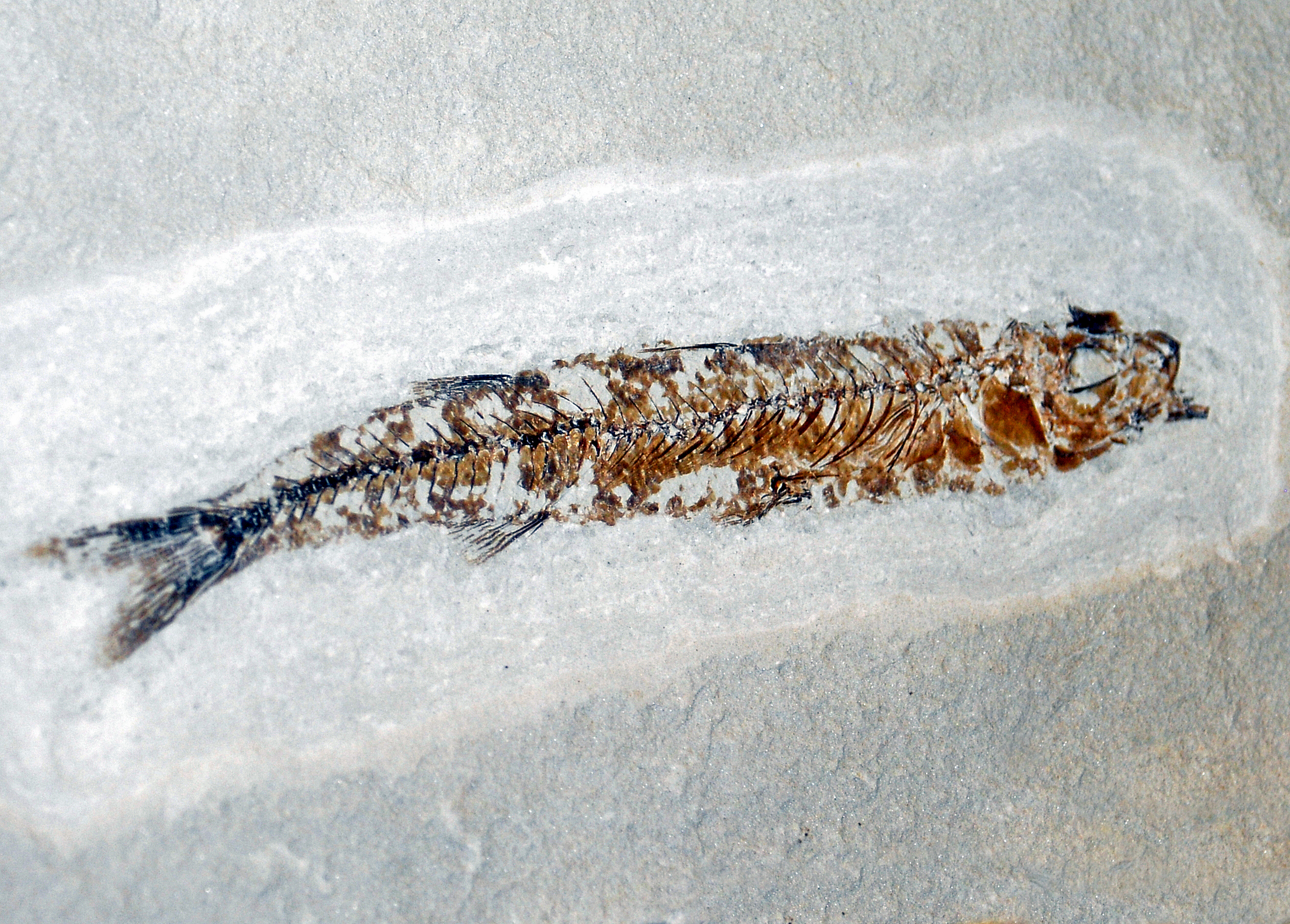 Fossil of Atherina cavalloi, on display at the Museo Archeologico e di Scienze Naturali - Alba, Italy